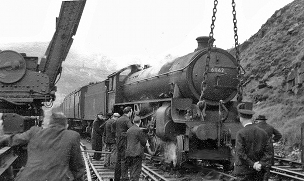 Woodhead: a railway mishap. Just west of Woodhead Station, roughly SE. The bogie of a Class B1 4-6-0 that had derailed at the Down-to-Up line crossover is being replaced on the rails while the breakdown crane (from Gorton) lifts the front of the engine. The train was the 08.40 Sheffield - Manchester express; it and all other traffic on this busy route was held up for an hour or two. (At the time all traffic was using the Up (Eastbound) single bore of the Old Tunnel, anyway. (alternate view)